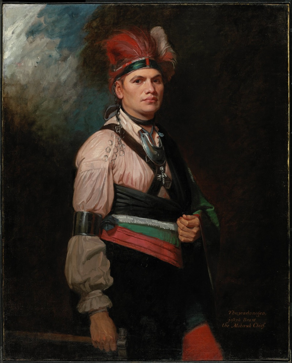 Brant was visiting England with Guy Johnson at age 33 or 34 when Romney painted him in his London studio. Brant is shown wearing a white ruffled shirt, an Indian blanket, a silver gorget, a plumed headdress and carrying a tomahawk.